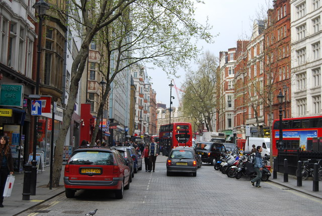 Looking north up Charing Cross Rd from Irving St